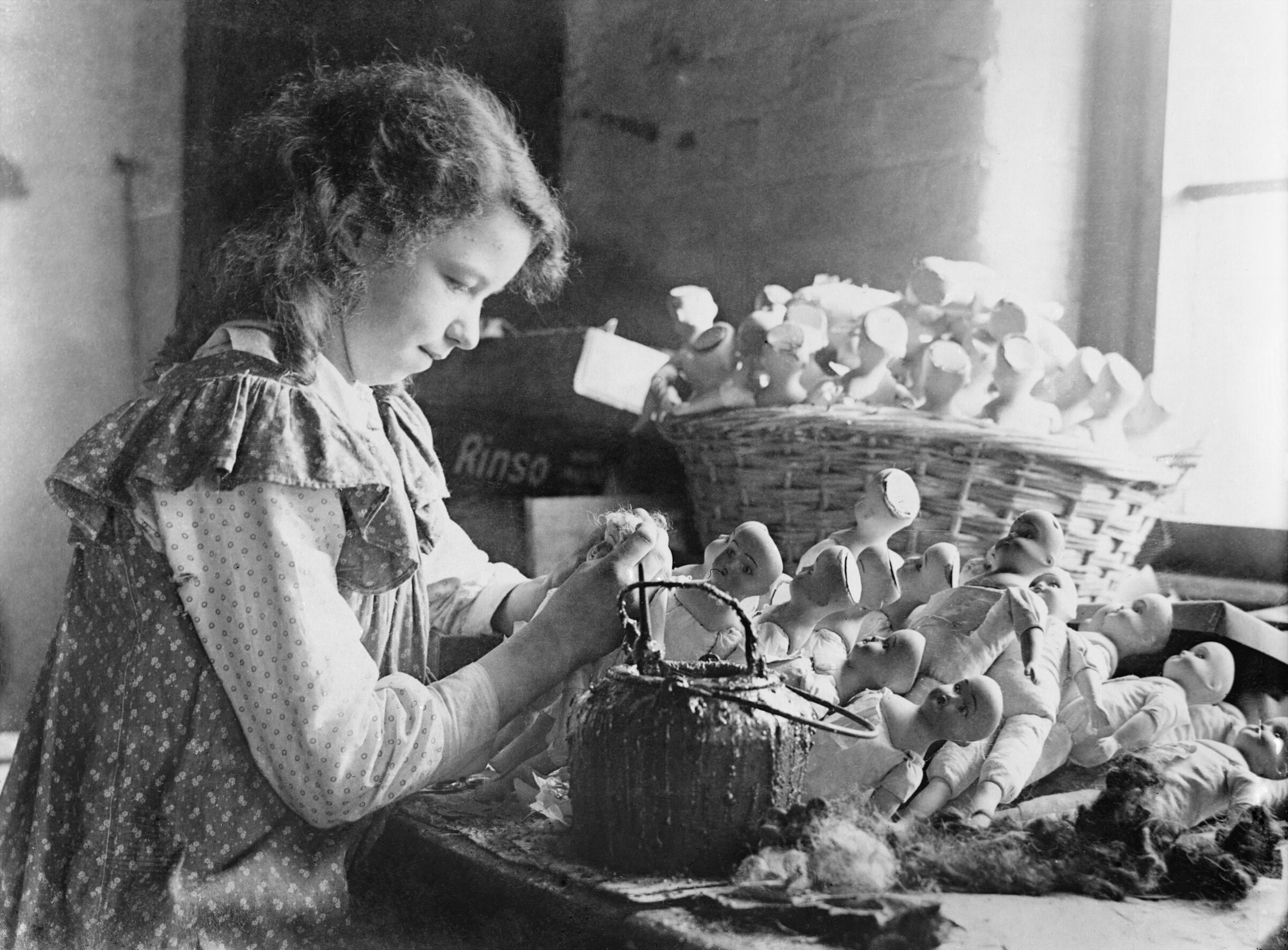 The Employment of Women in Britain, 1914-1918 A female worker fastening dolls heads in a toy Factory in Britain.